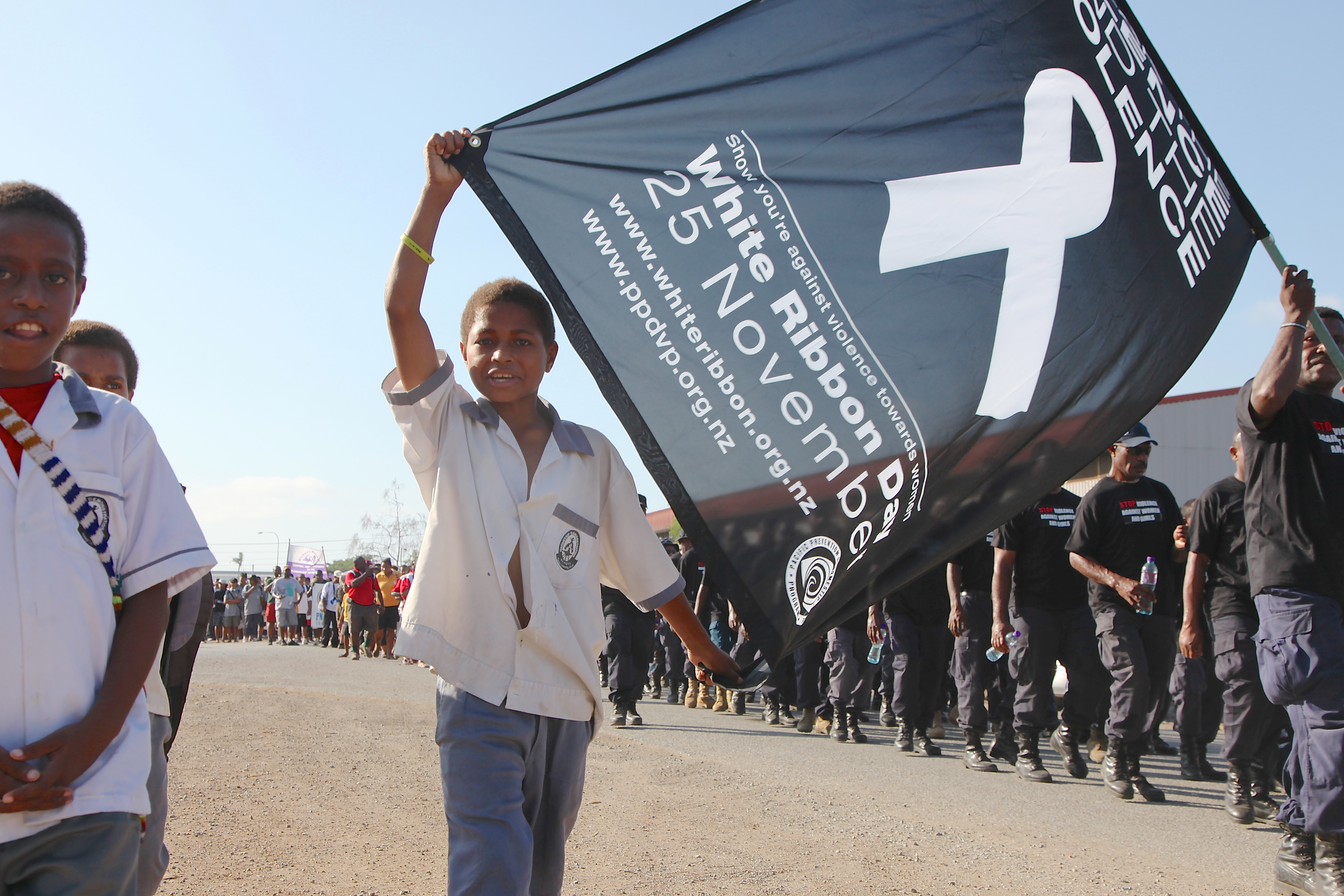 There is no specific legislation criminalising domestic violence in Papua New Guinea. The criminal court does not differentiate between assault committed in the community or in the home. After an official visit to the country, UN special rapporteur Rashida Manjoo identified violence against women in Papua New Guinea as a “pervasive phenomenon” often involving family members. The unity shown by men, women and children on White Ribbon Day is an important reminder that violence against women impacts on society as a whole. Photo credit: DFAT/Michael Wightman